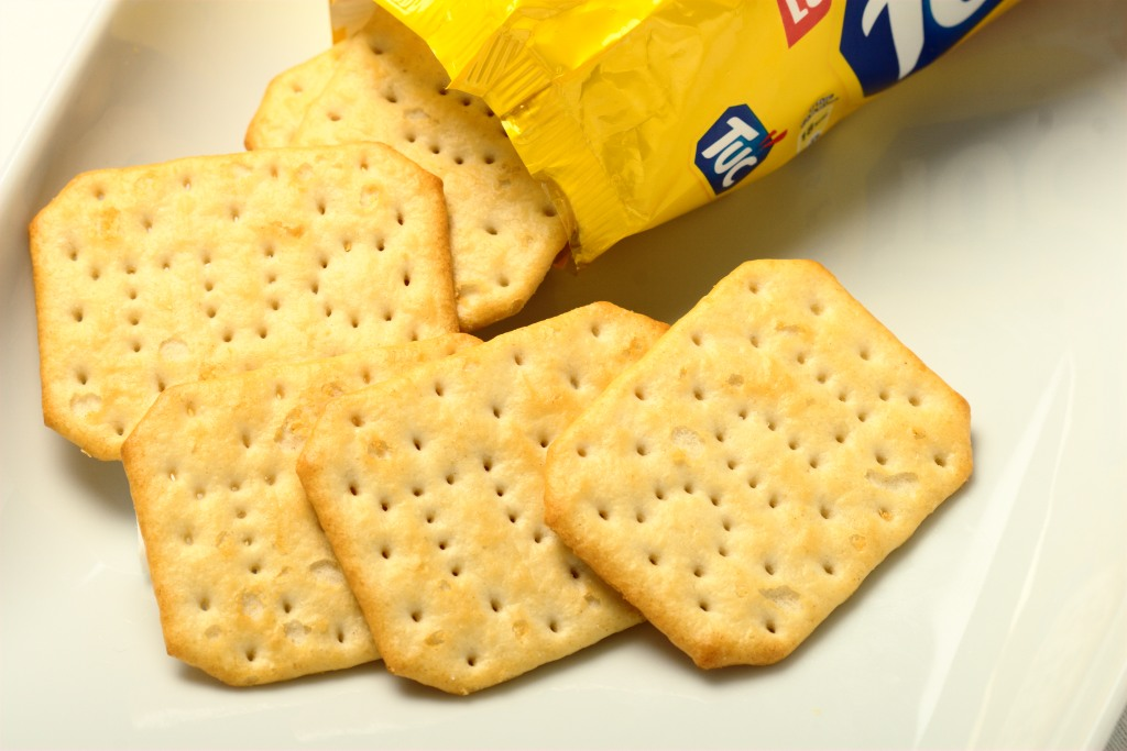 TUC crackers, on a white plate, with some part of the packaging showing.